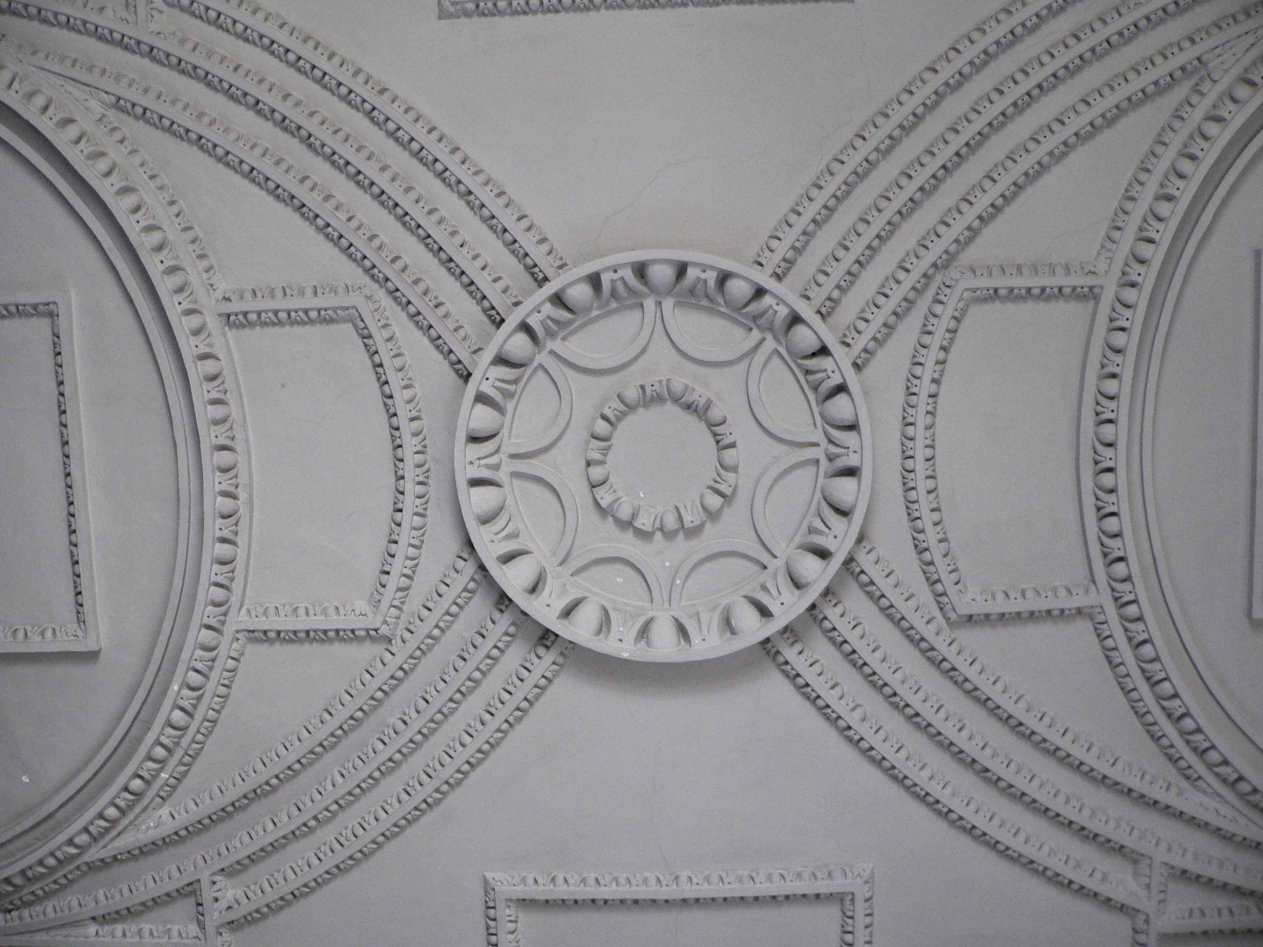 Ceiling in the Upper Link, based on a ceiling in a building in the ancient Roman funuary city of Pozzuoli. The vault form and its size suggest that the original ceiling may have ceiled a mausoleum